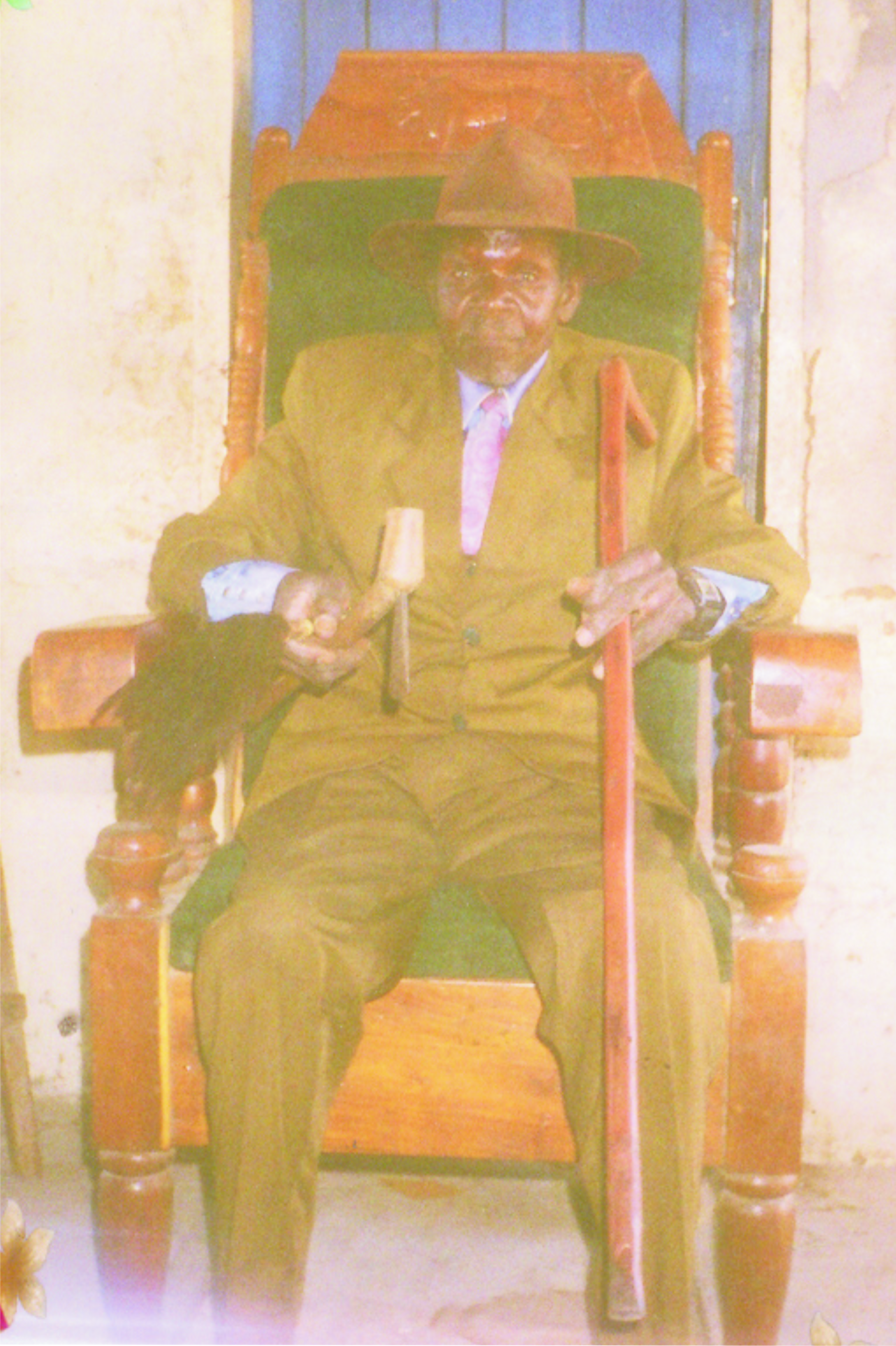 Chief Mwene Kasavi Kajila is the 8th in the Mwene Kasavi Dynasty